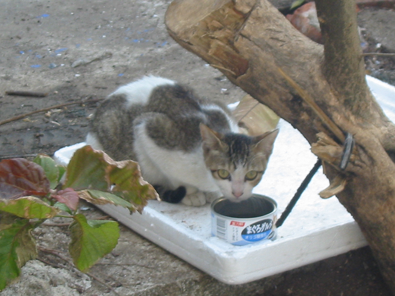 攝於大埔的街貓，由Wrightbus本人拍攝。